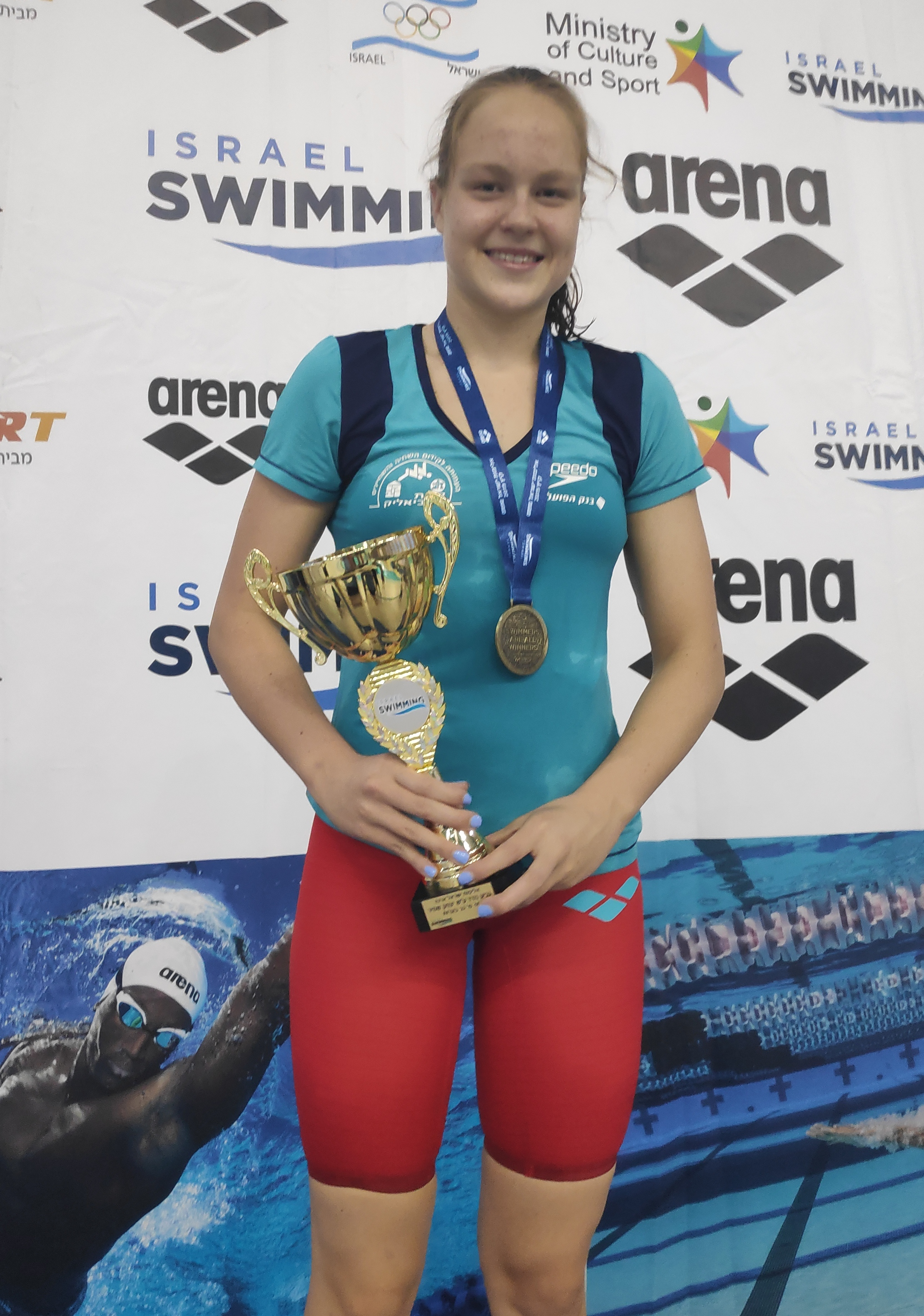 Anastasya Gorbenko August 2019